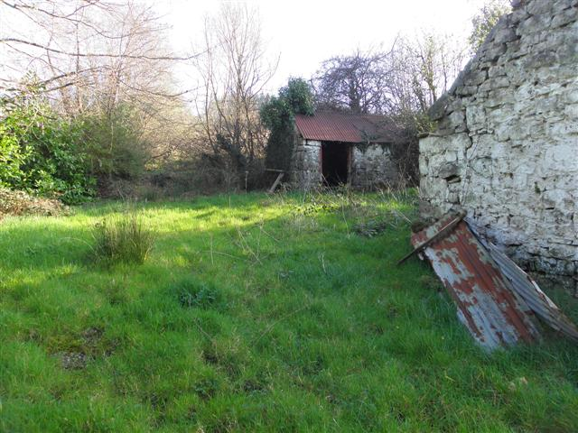 Ballynamaddoo townland, Templeport parish, County Cavan, Ireland, looking north-east.